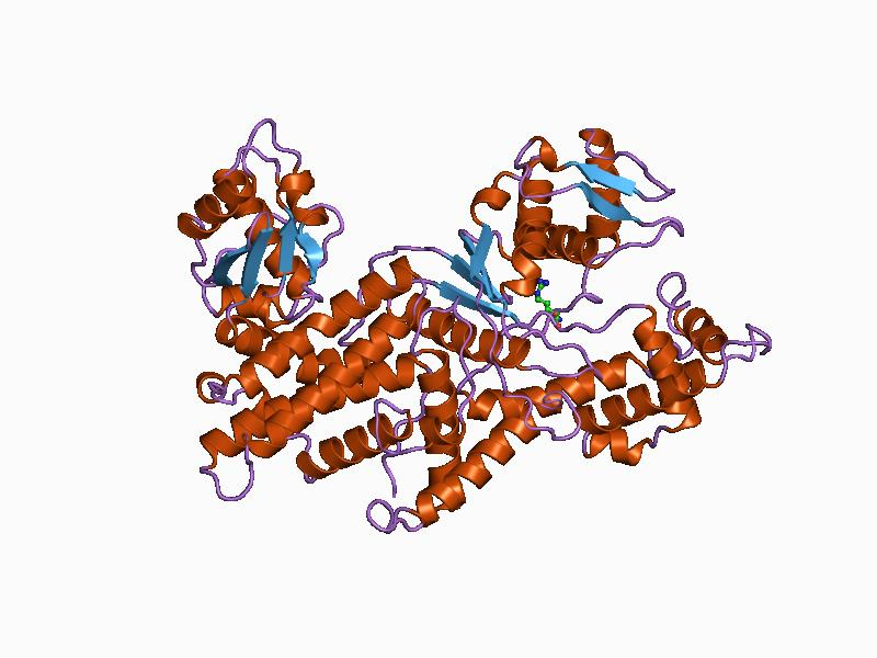 Cartoon representation of the molecular structure of protein registered with 1bs2 code.